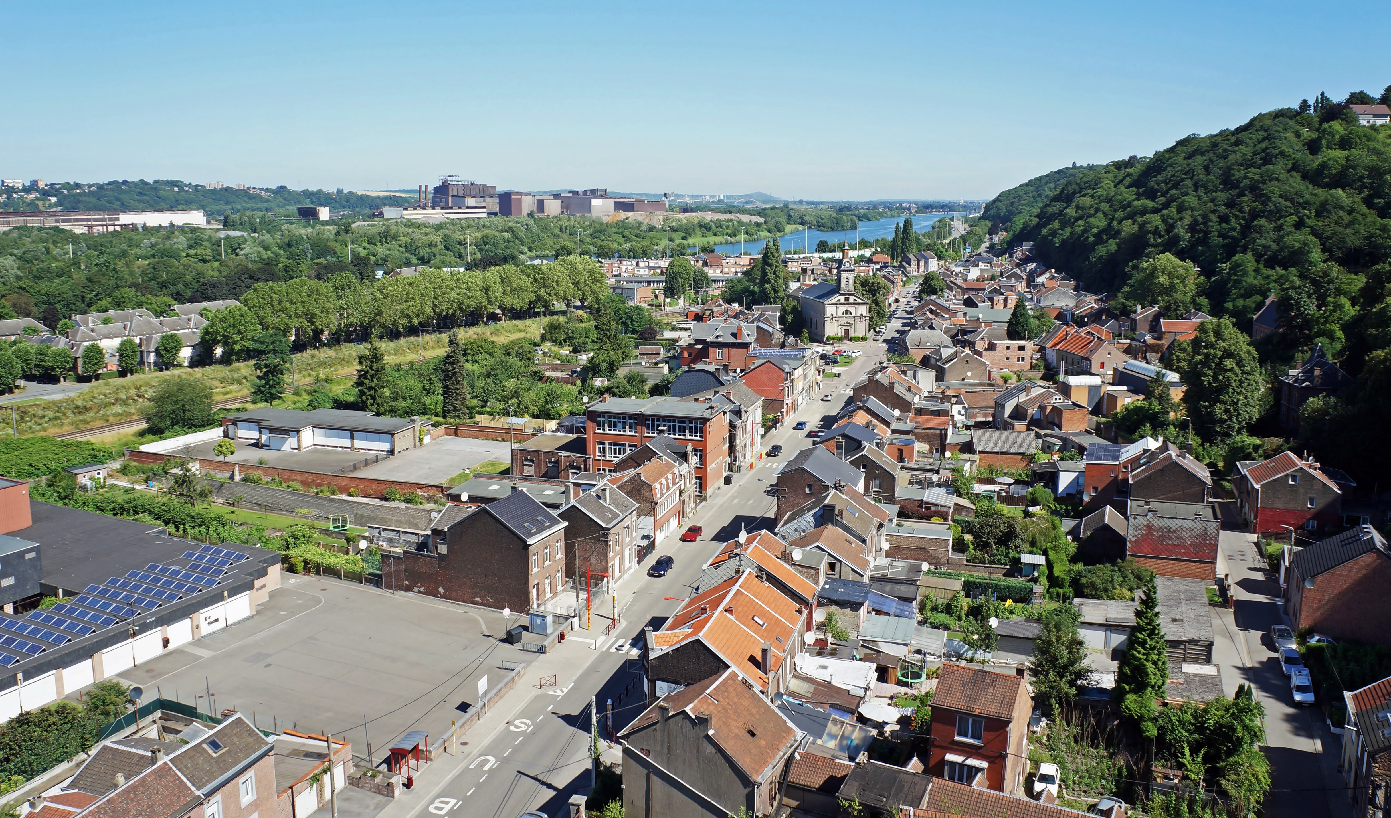 Cheratte (Belgium) from the top of the tower 3 No. 3 of the colliery Hasard.